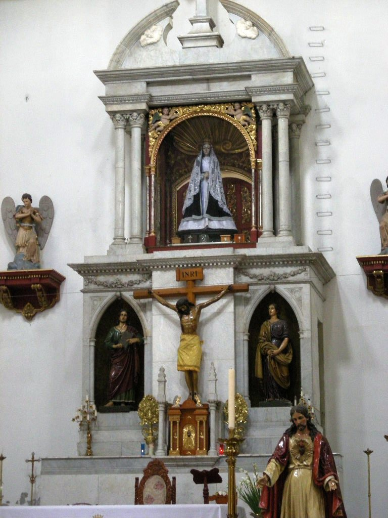 Virgen of La Soledad (Virgin of Solitude) in the main nave of the Parish Church of La Soledad in the historic center of Mexico City